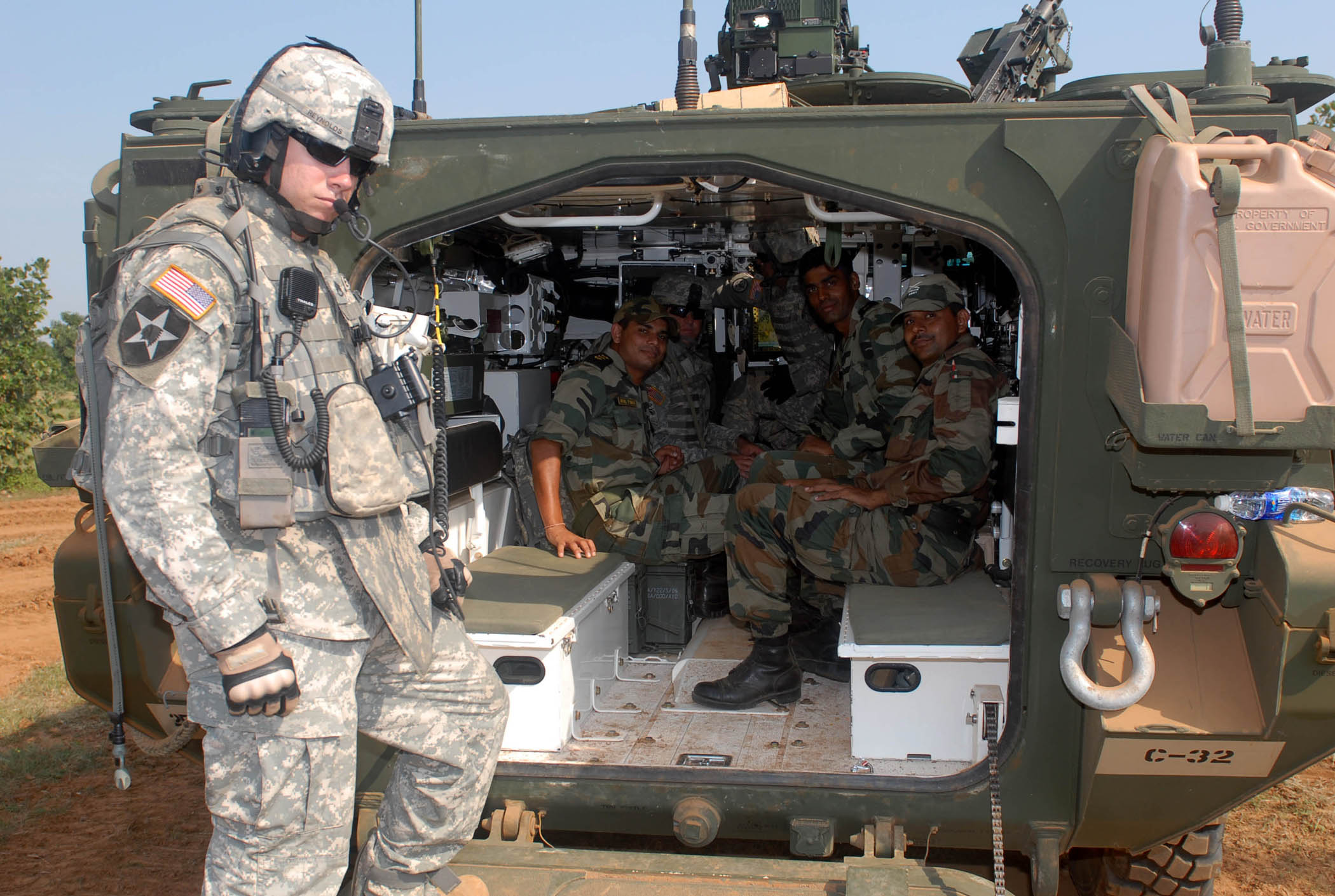 CAMP BUNDELA, India (Oct. 1, 2009) - Staff Sgt. Jeremy Reynolds, range safety non-commissioned officer, assigned to Troop C, 2nd Squadron, 14th Cavalry Regiment "Strykehorse," 2nd Stryker Brigade Combat Team, 25th Infantry Division, from Schofield Barracks, Hawaii stands outside the vehicle while Indian Army personnel get an inside seat. The Indian Army Soldiers rode in Strykers during range training for Exercise Yudh Abhyas 09, Oct. 14. YA09 is a bilateral exercise involving the Armies of India and the United States.